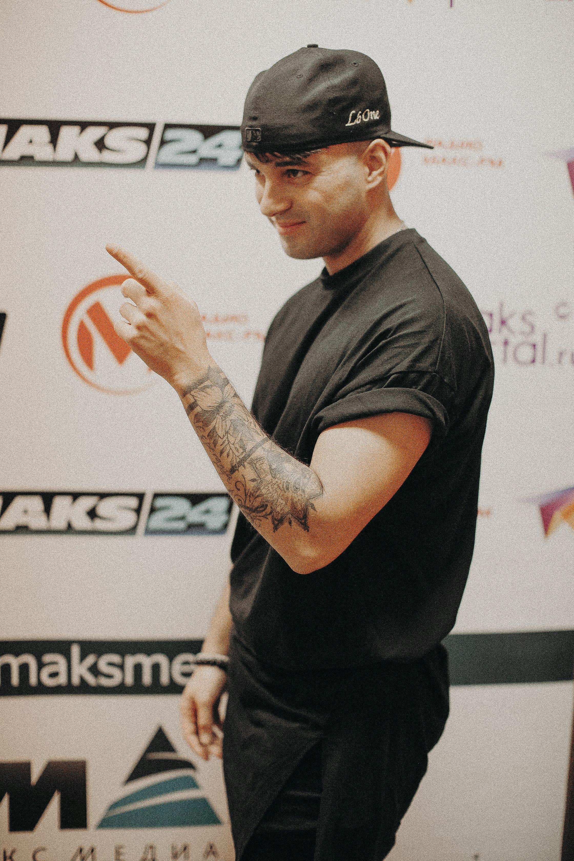 Lbwiki318